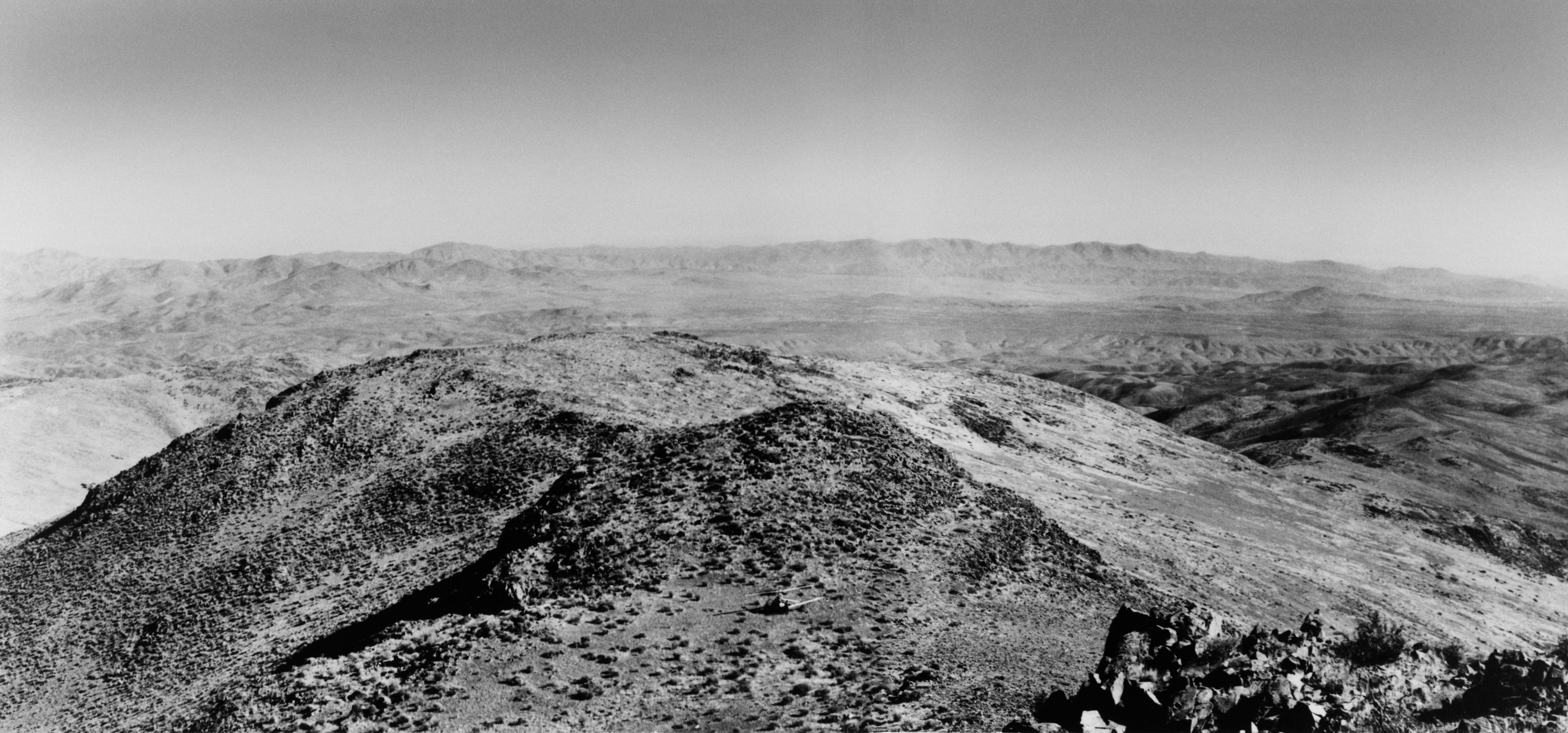 In this photograph, three telescopes are portrayed, all looking very different from each other. To the right of the water tanks is the ESO New Technology Telescope (NTT), which had its first light on 23 March 1989. This 3.58-metre telescope was the first ever to have a computer-controlled main mirror, which could adjust its shape during observations to optimise image quality. The octagonal enclosure housing the NTT is another technological breakthrough, ventilated by a system of flaps that makes air flow smoothly across the mirror, reducing turbulence and leading to sharper images. To the right of the NTT is the Swiss 1.2-metre Leonhard Euler Telescope, which has a more traditional dome-shaped enclosure. It is operated by the Geneva Observatory at the Université de Genève in Switzerland, and had its first light on 12 April 1998. It is used to search for exoplanets in the southern sky; with its first discovery being a planet in orbit around the star Gliese 86. The telescope also observes variable stars, gamma-ray bursts and active galactic nuclei. In the foreground on the right is a building nicknamed the sarcofago (sarcophagus). This houses the TAROT (Télescope à Action Rapide pour les Objets Transitoires, or Rapid Action Telescope for Transient Objects), which started work at La Silla on 15 September 2006. This is the present-day photograph from the Then and Now Picture of the Week, Three Very Different Telescopes at La Silla.